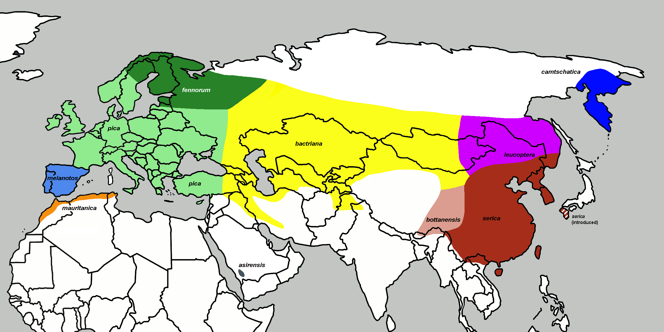 Distribution of subspecies of Pica pica and related species, with national borders added Dark grey: Pica asirensis Orange: Pica mauritanica Light blue: Pica pica melanotos Light green: Pica pica pica Dark green: Pica pica fennorum Yellow: Pica pica bactriana Pink: Pica pica leucoptera Dark blue: Pica pica camtschatica Dark red: Pica serica Light red: Pica bottanensis References: IOC World Bird List; Handbook of the Birds of the World vol. 14.